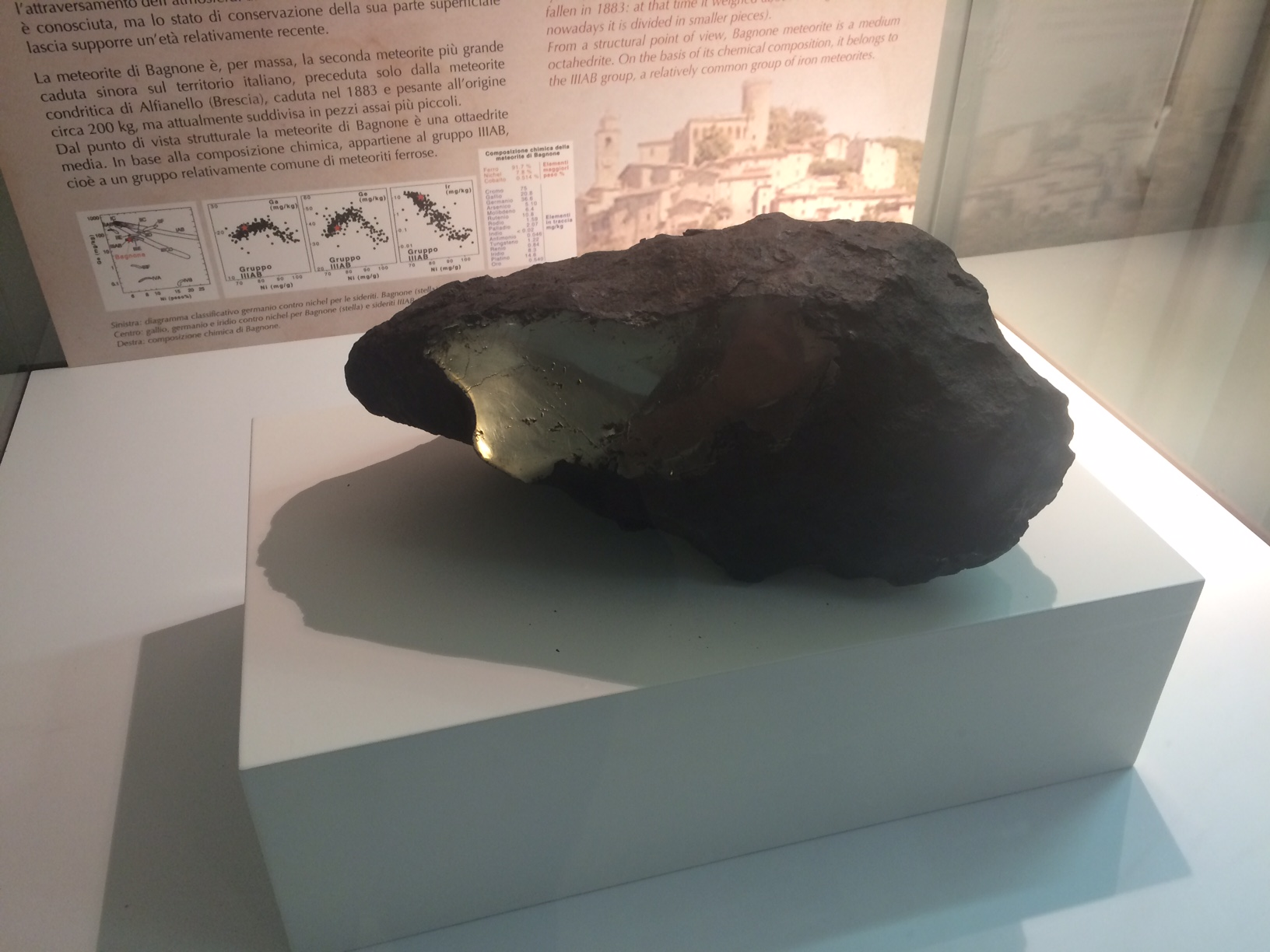 Bagnone's meteorite (octahedrite IIIAB, 48 kg) at thenatural history museum of the University of Pisa.